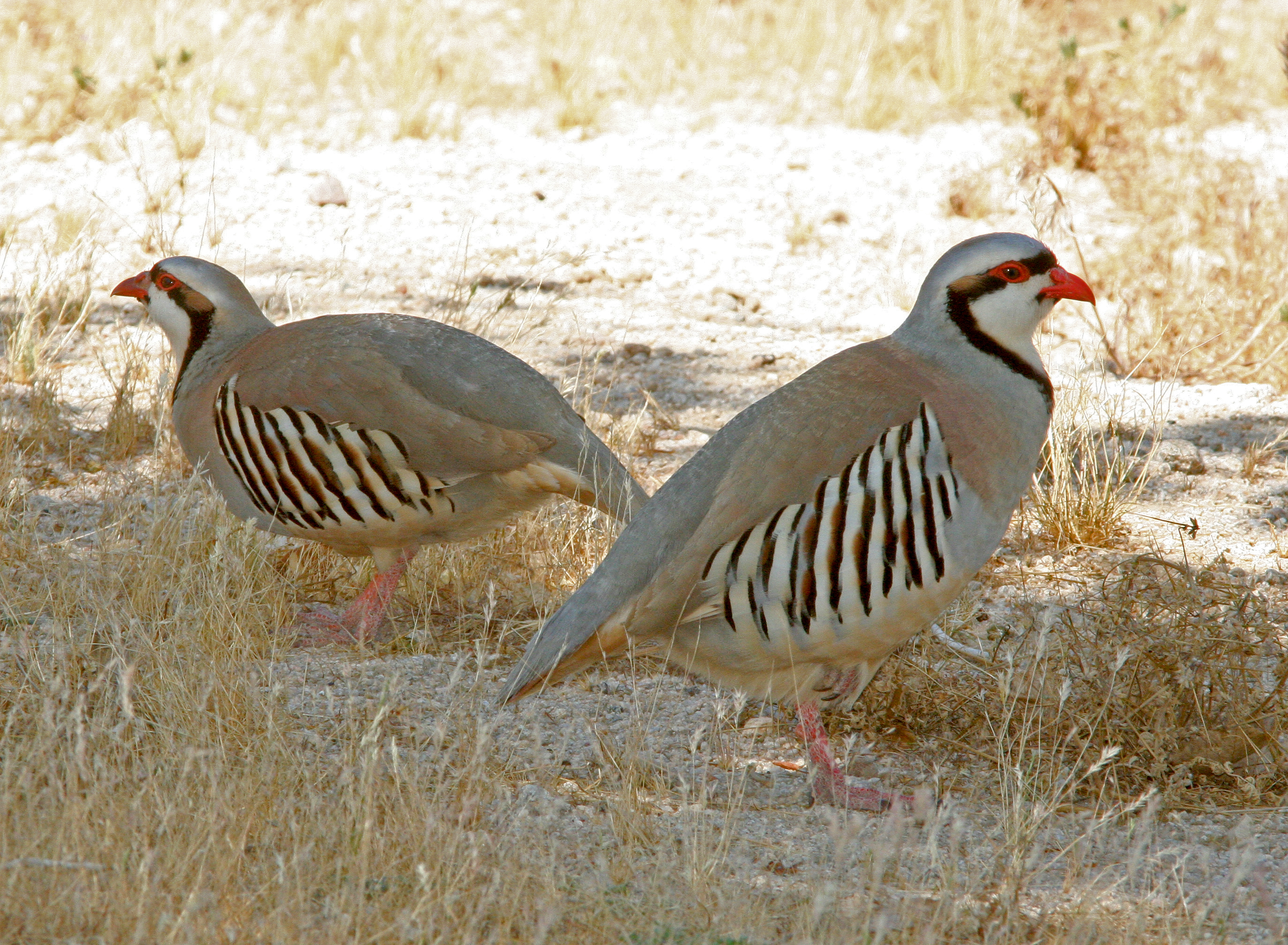 ABA AREA BIRDS: My Photo "Life List"